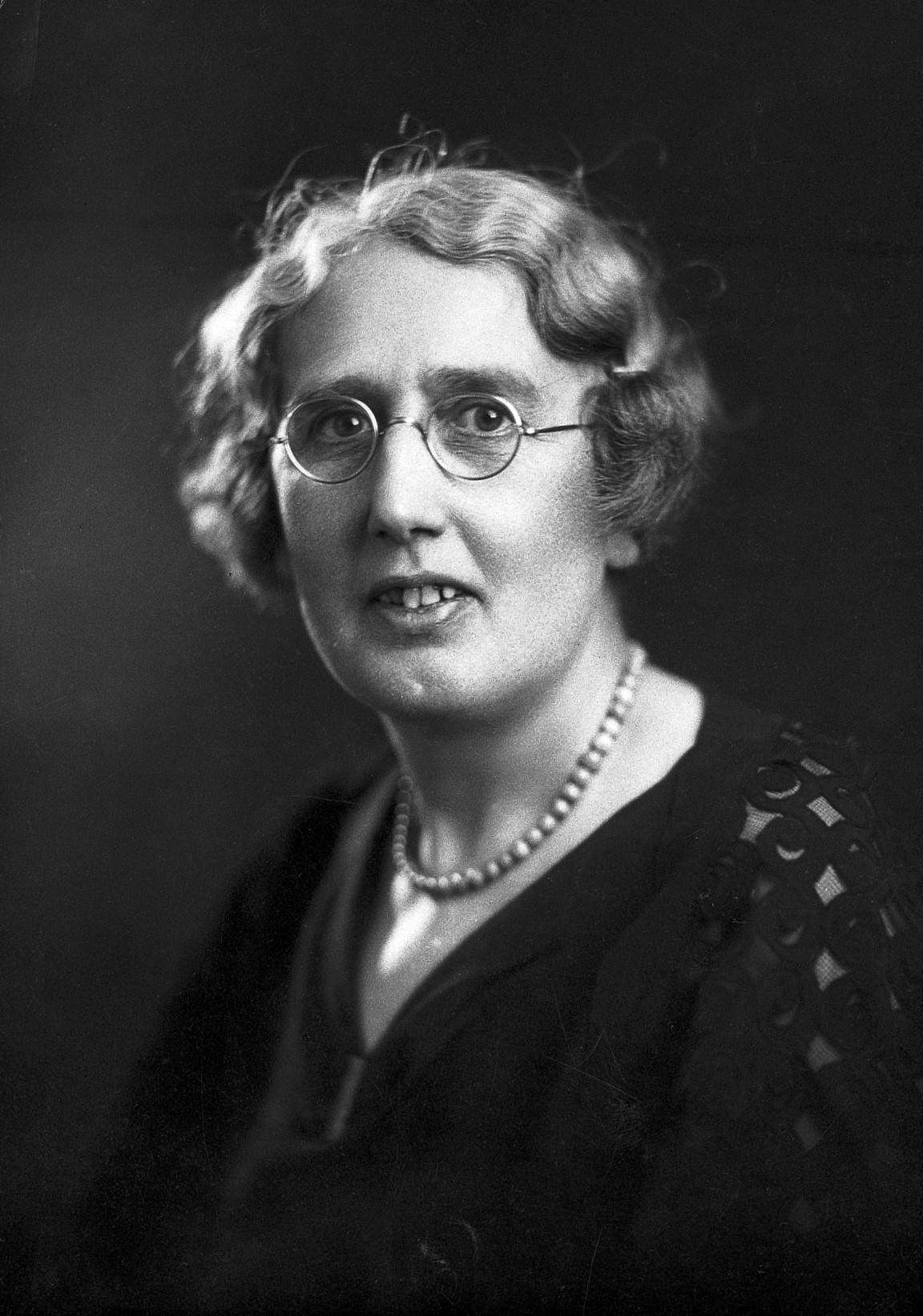 Portrait of Dr. Catherine Chisholm. Archives & Manuscripts Keywords: F.W. Schmidt